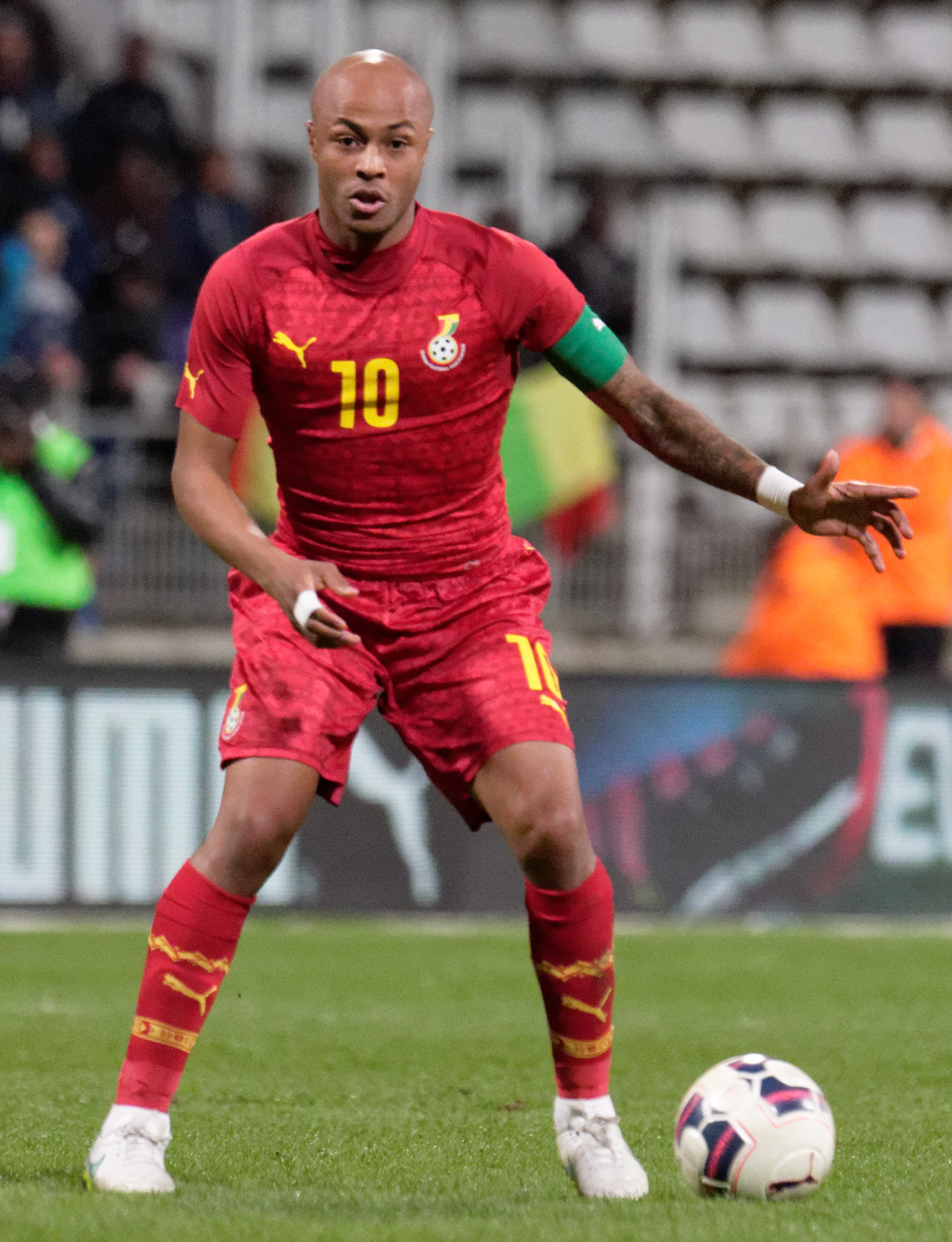 Mali vs Ghana, exhibition game at Paris, 31st March 2015.